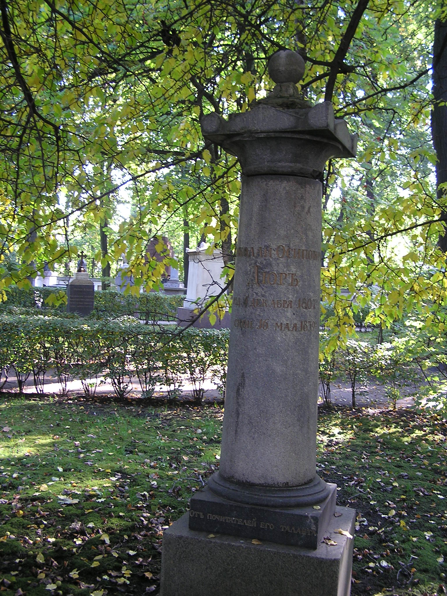 Tikhvin Cemetery